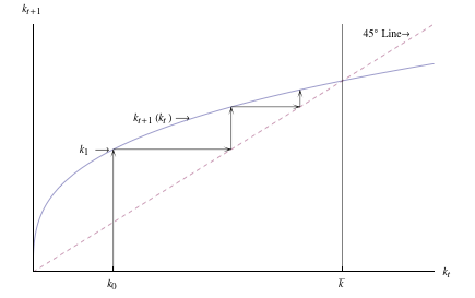 For the overlapping genrations